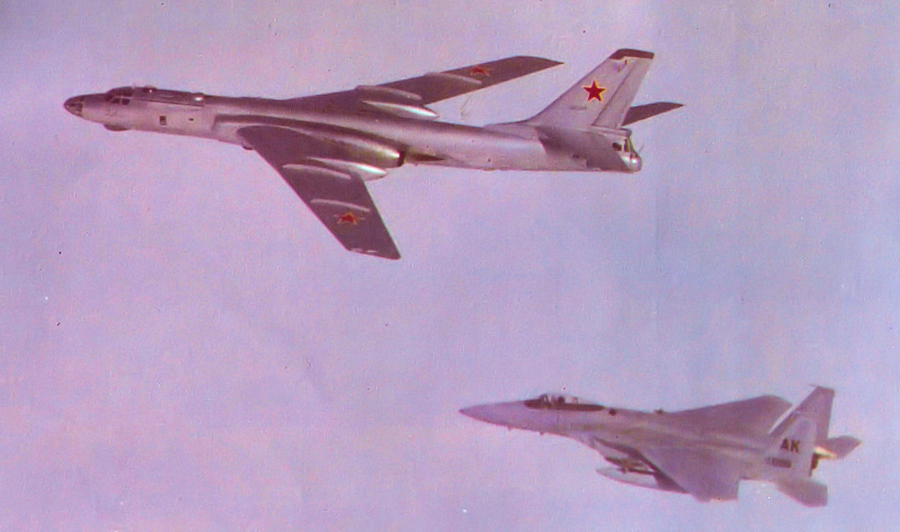 43d Tactical Fighter Squadron - F-15s - Tu 16 Bager Intercept